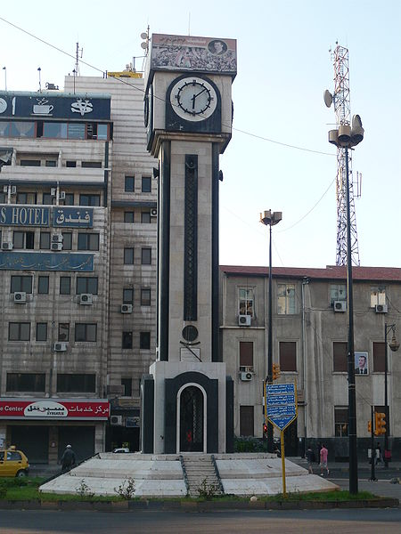 The New Clock In Hims City.